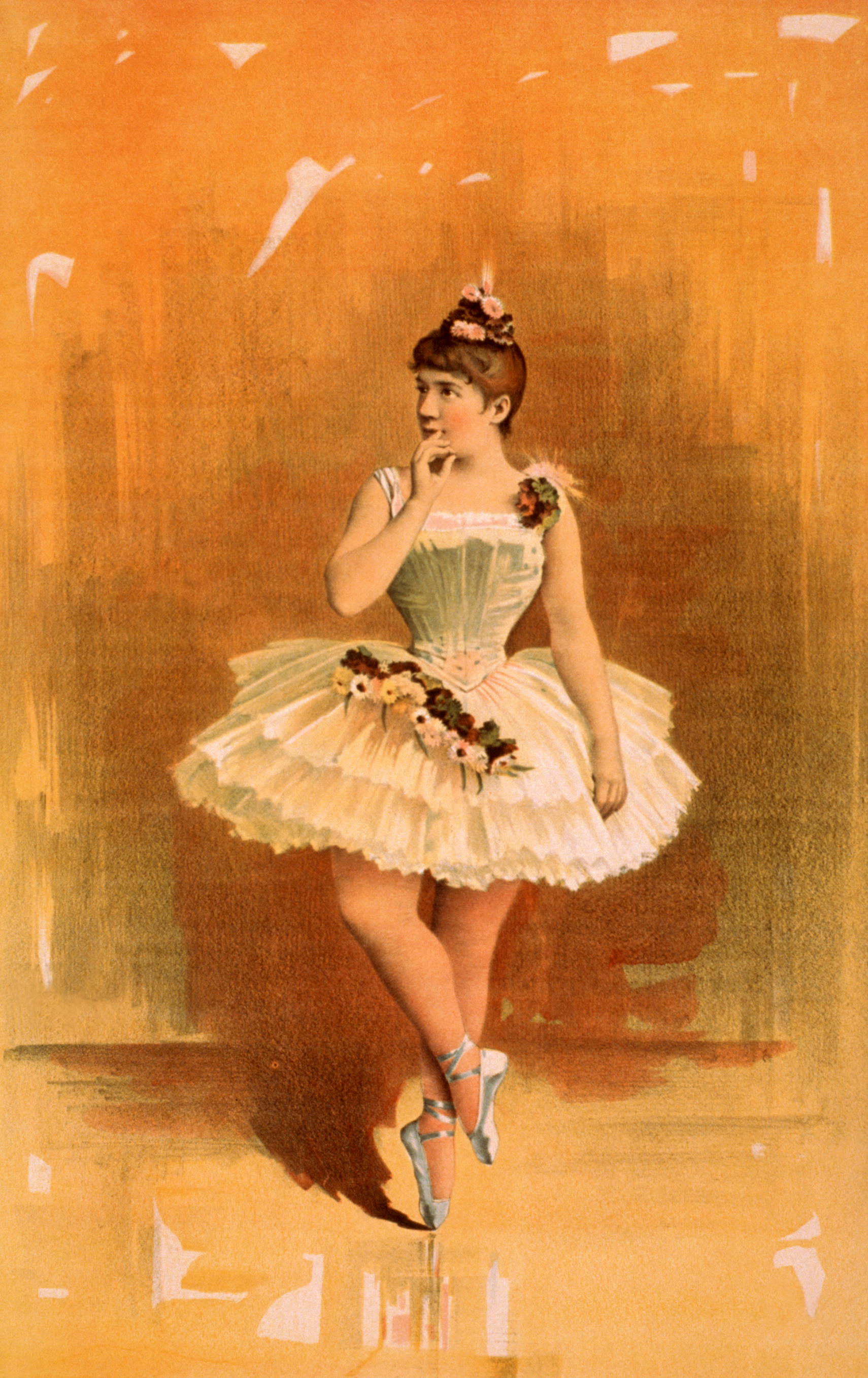 Ballerina in white costume with flowers in dance pose